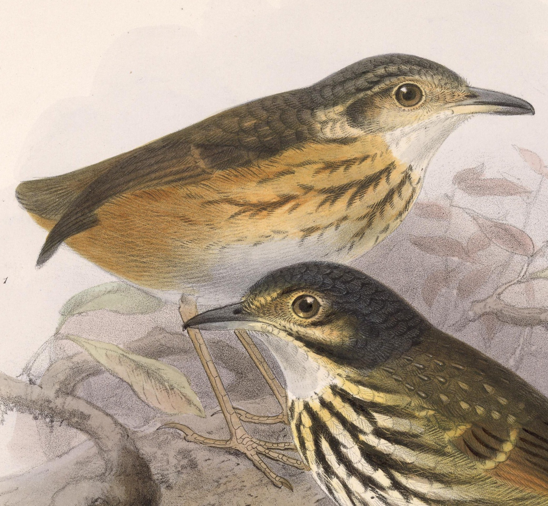 « Grallaria dives » = Hylopezus dives (Thicket Antpitta)